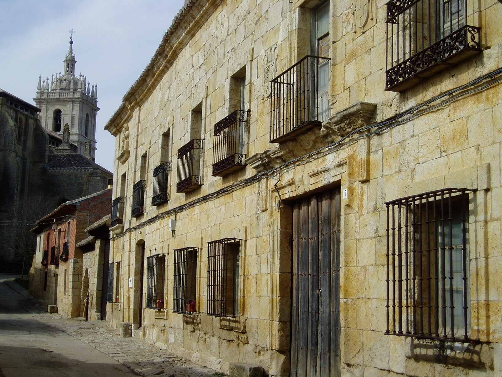 Casa del Mayorazgo, in Támara de Campos, Palencia.